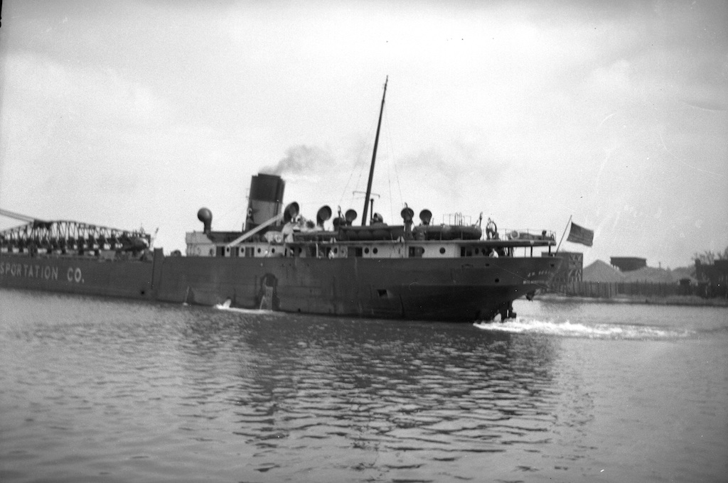 The following is the author's description of the photograph quoted directly from the photograph's Flickr page."The American flagged laker J.R. Sensibar transits through the Welland Canal.A ship of the Columbia Transportation Company "